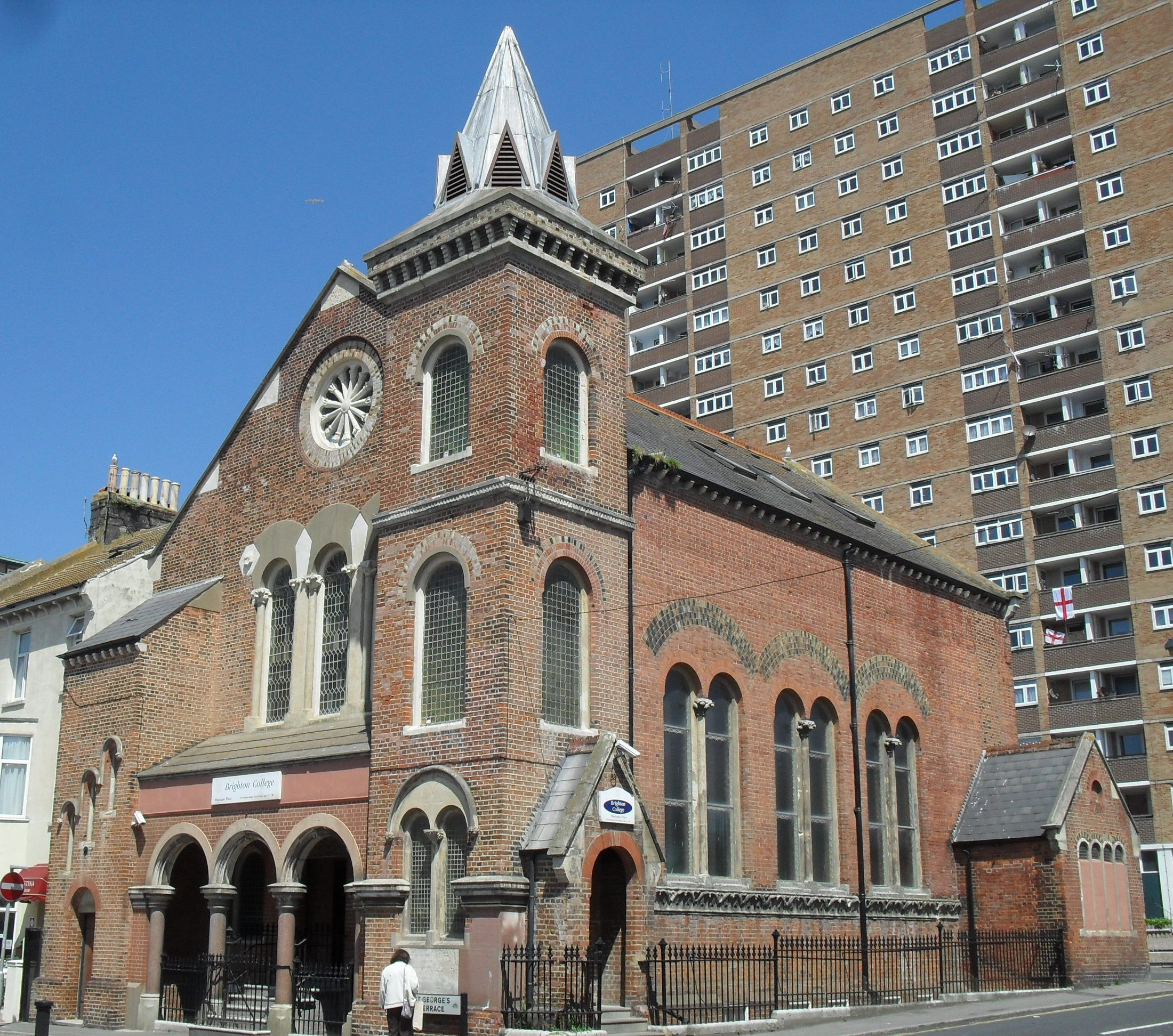 Former Methodist church, Montague Place, Kemptown, City of Brighton and Hove, England. Built in 1873, It was converted into a recording studio in 1989.